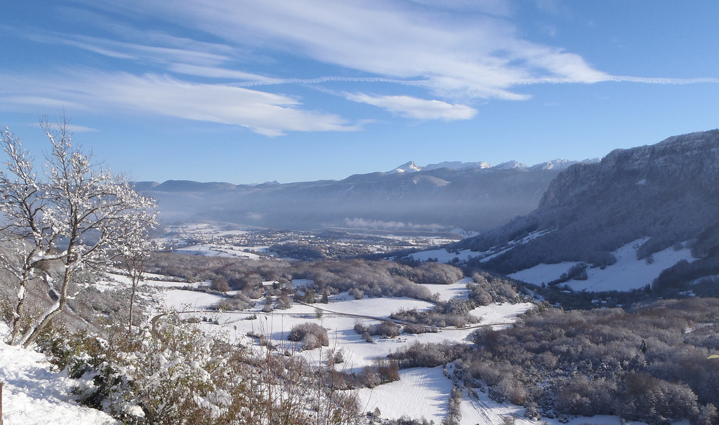 500px provided description: First snow on november 2013. Shot taken from Col de Carri [#panorama ,#montagne ,#neige ,#vercors]